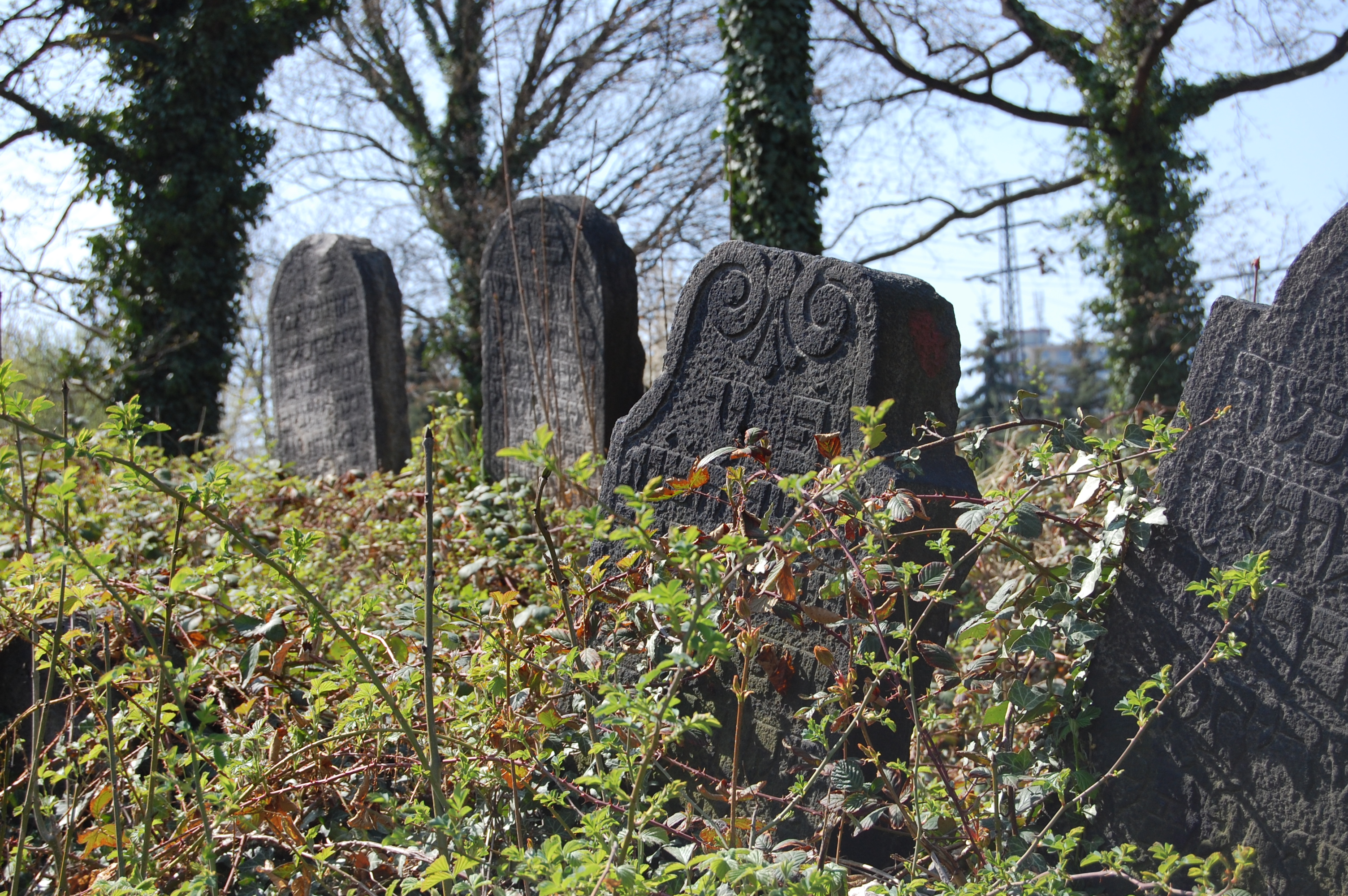 Jewish cemetery in Sobědruhy, Czech Republic. Česky: Židovský hřbitov v obci Sobědruhy, která je součástí města Teplice v České republice.